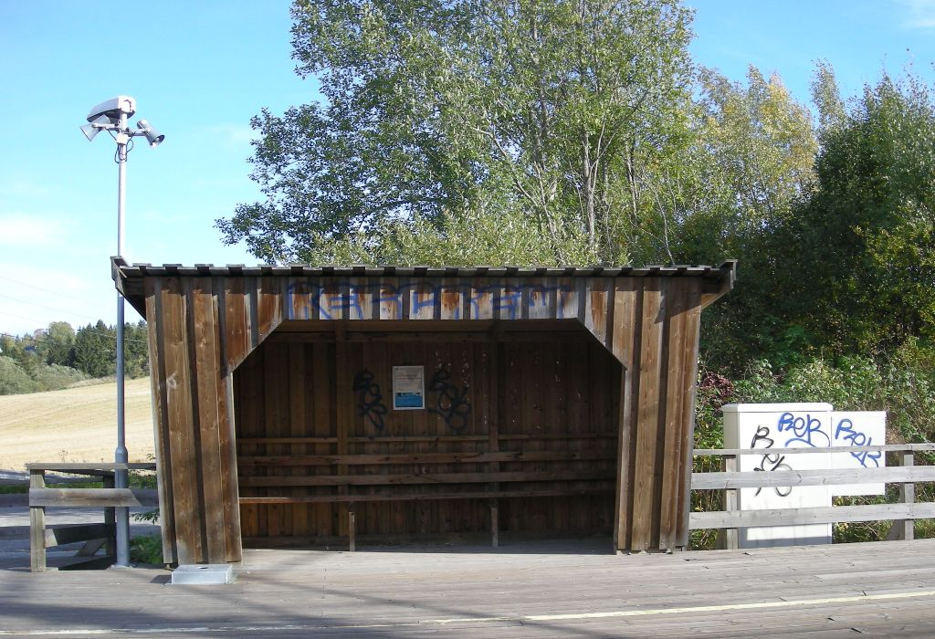 Guttersrud station on the Kongsvinger line (Akershus, Norwa)